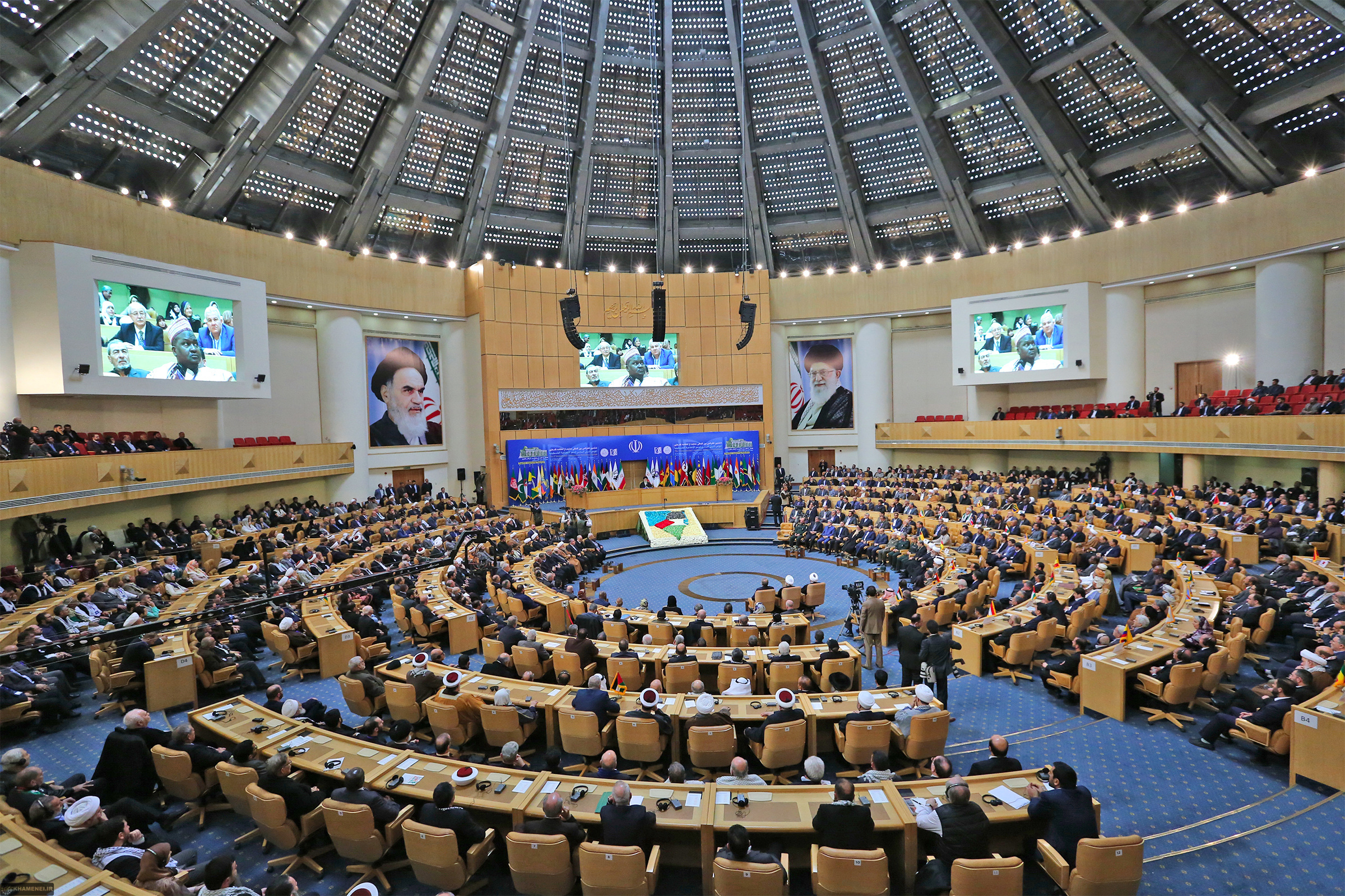 Sixth International Conference in Support of the Palestinian Intifada, Tehran